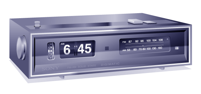 Sony Digimatic 8FC-59W radio alarm clock with an early form of digital display. This particular model was manufactured in 1969. Drawn using Adobe Illustrator.